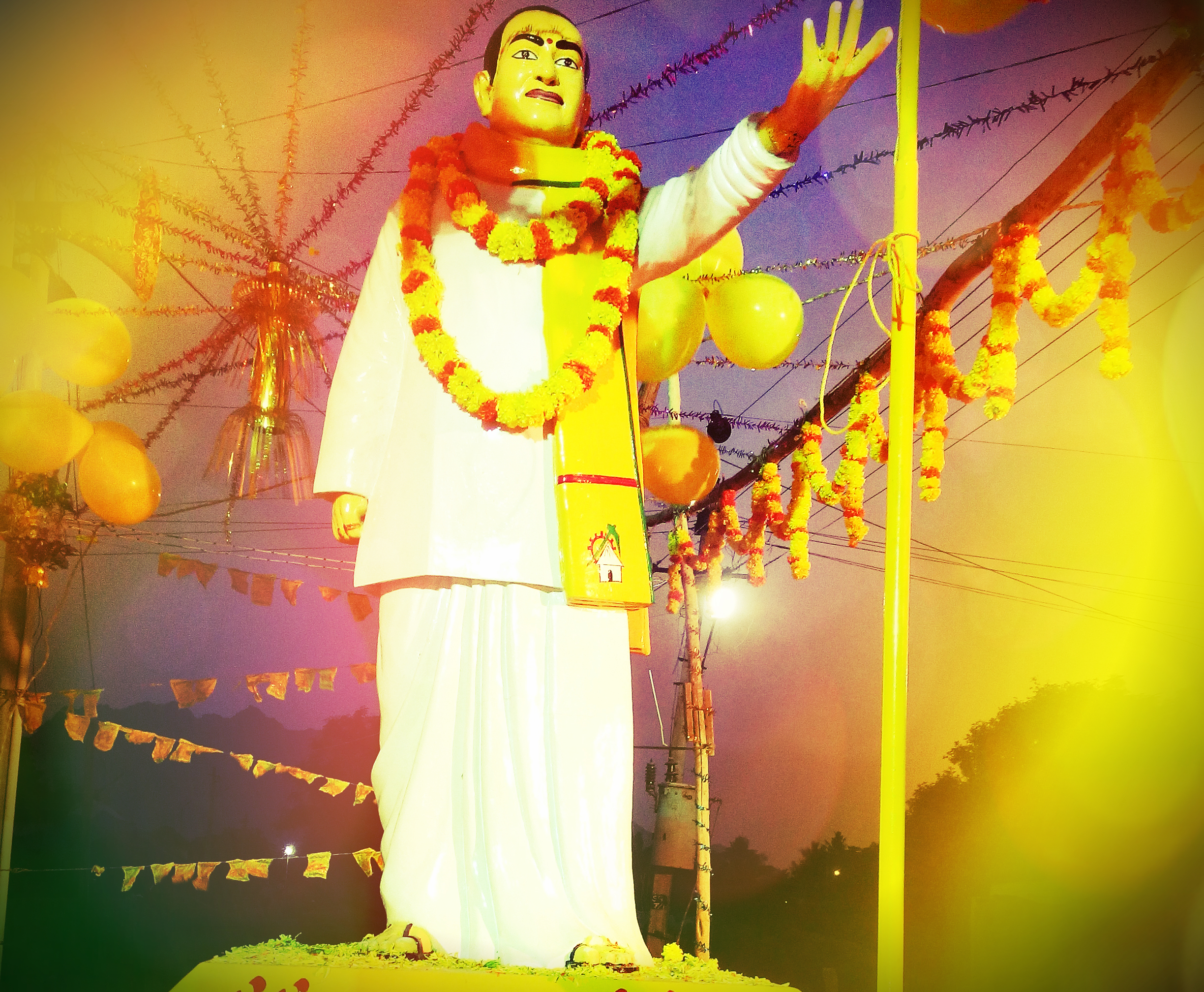 Nandamuri Taraka Ramarao Gari Statue in Kopperapalem